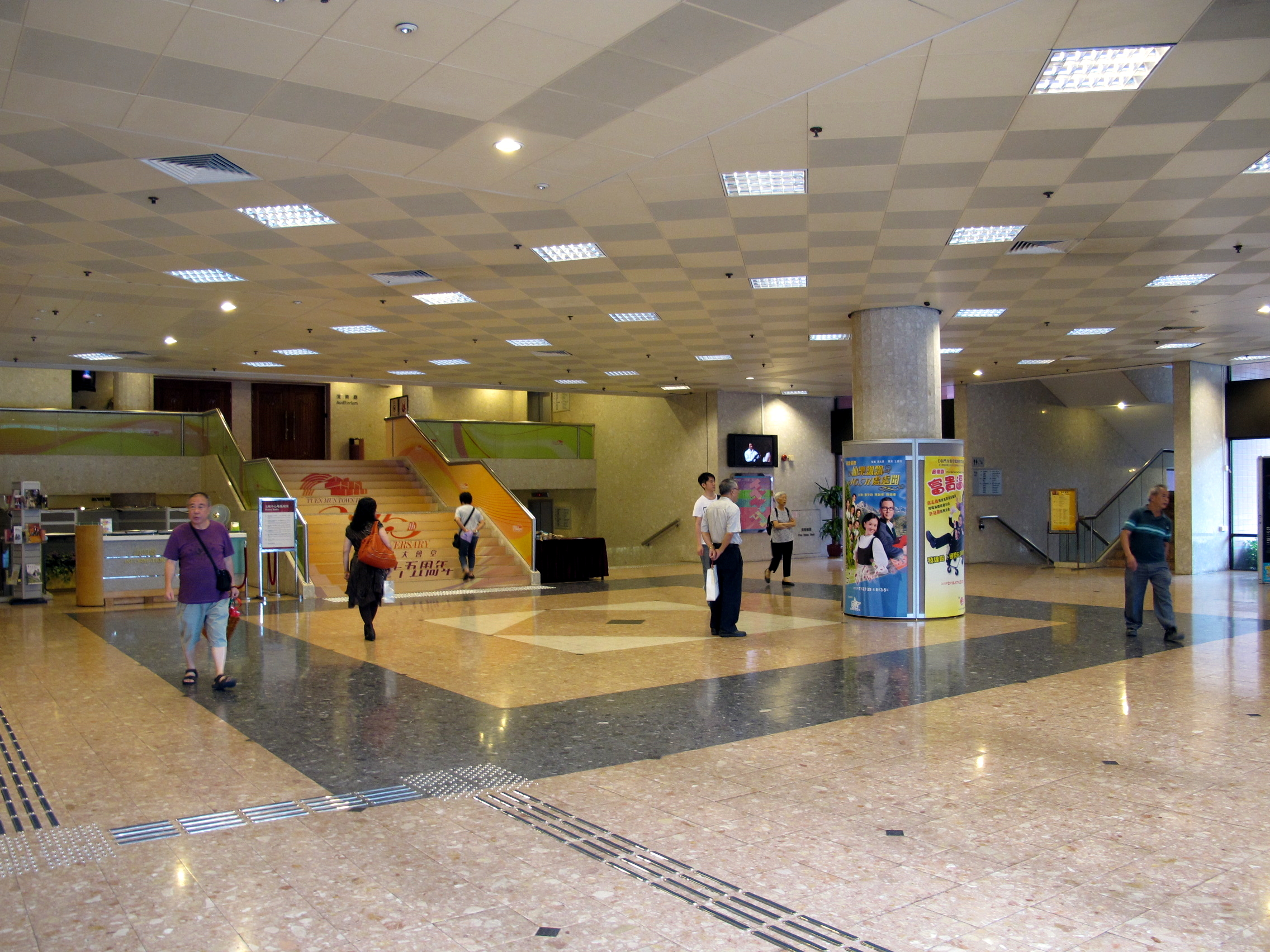 Tuen Mun Town Hall Lobby